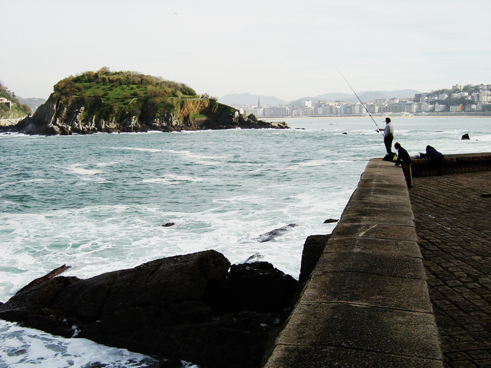 Santa Clara island and La Concha bay, in San Sebastian (Spain)